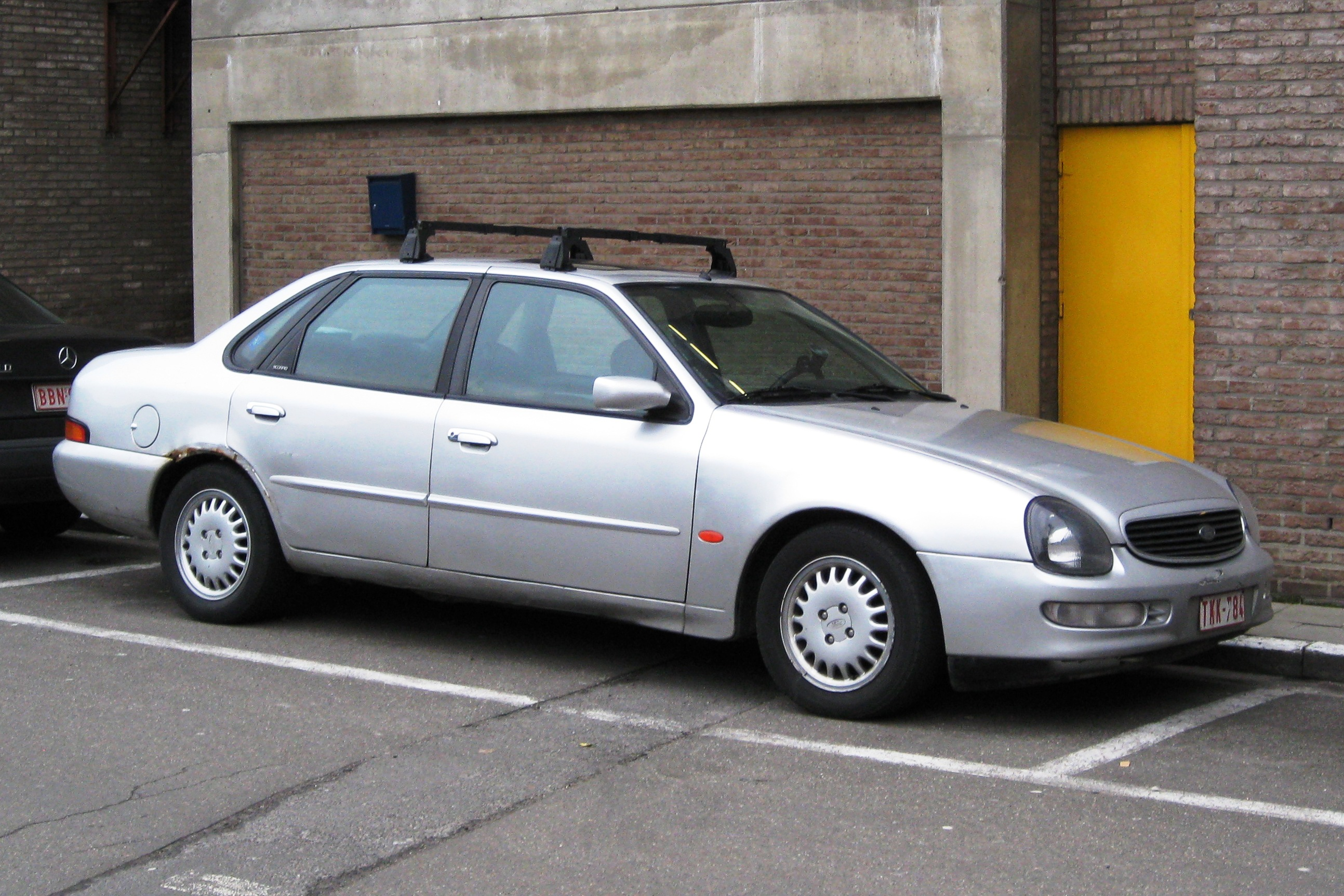 Ford Scorpio after it acquired a trunk / boot